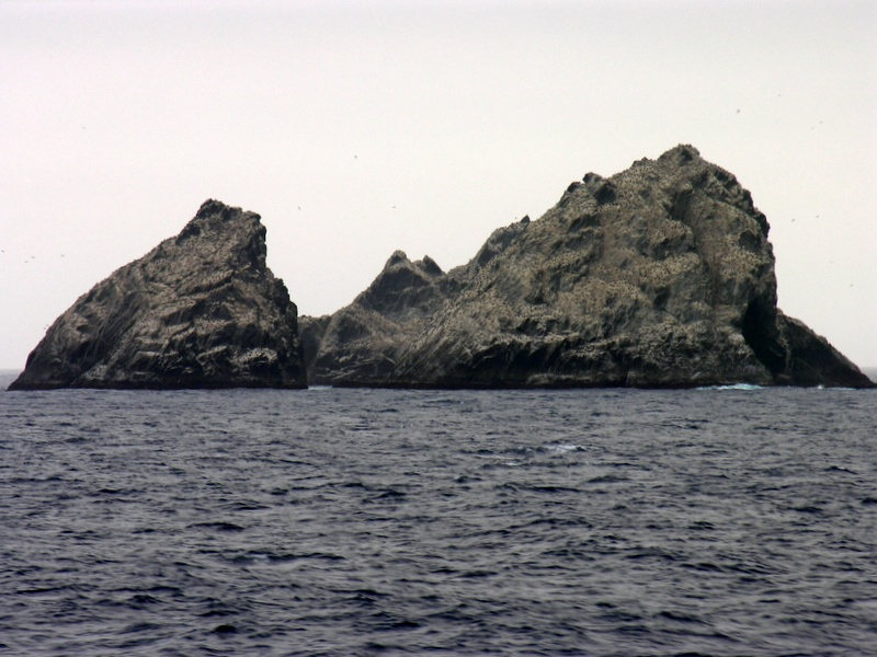 Shag Rocks (South Georgia) in the Southern Atlantic Ocean.